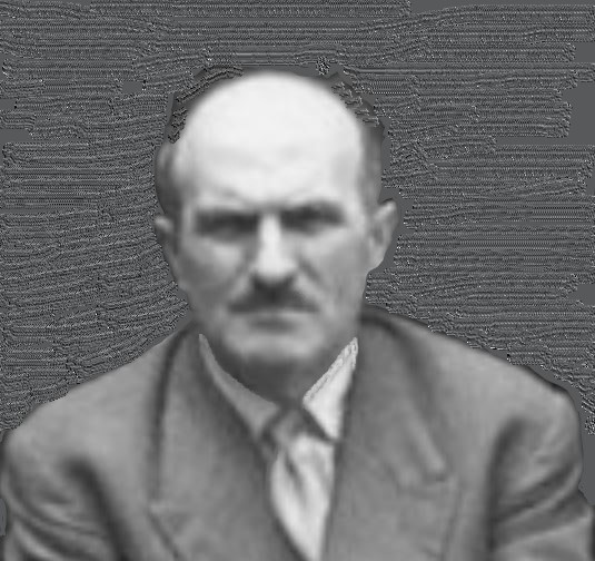 Siro born Luigi Sirio Contri (Cazzano di Tramigna 27 May 1898 - Pegli 1969) was a catholic philosopher pupil of Giuseppe Zamboni. He elaborated a meticulous critique of Hegel's logical thinking, of which he highlighted the gnoseological and methodological inconsistencies that lead to the wrong Hegelian conception of reality as the life of the idea. By reversing Hegelian immanentism, Contri discovered a world of reality by developing a conception of the philosophy of history which he called storiosofia